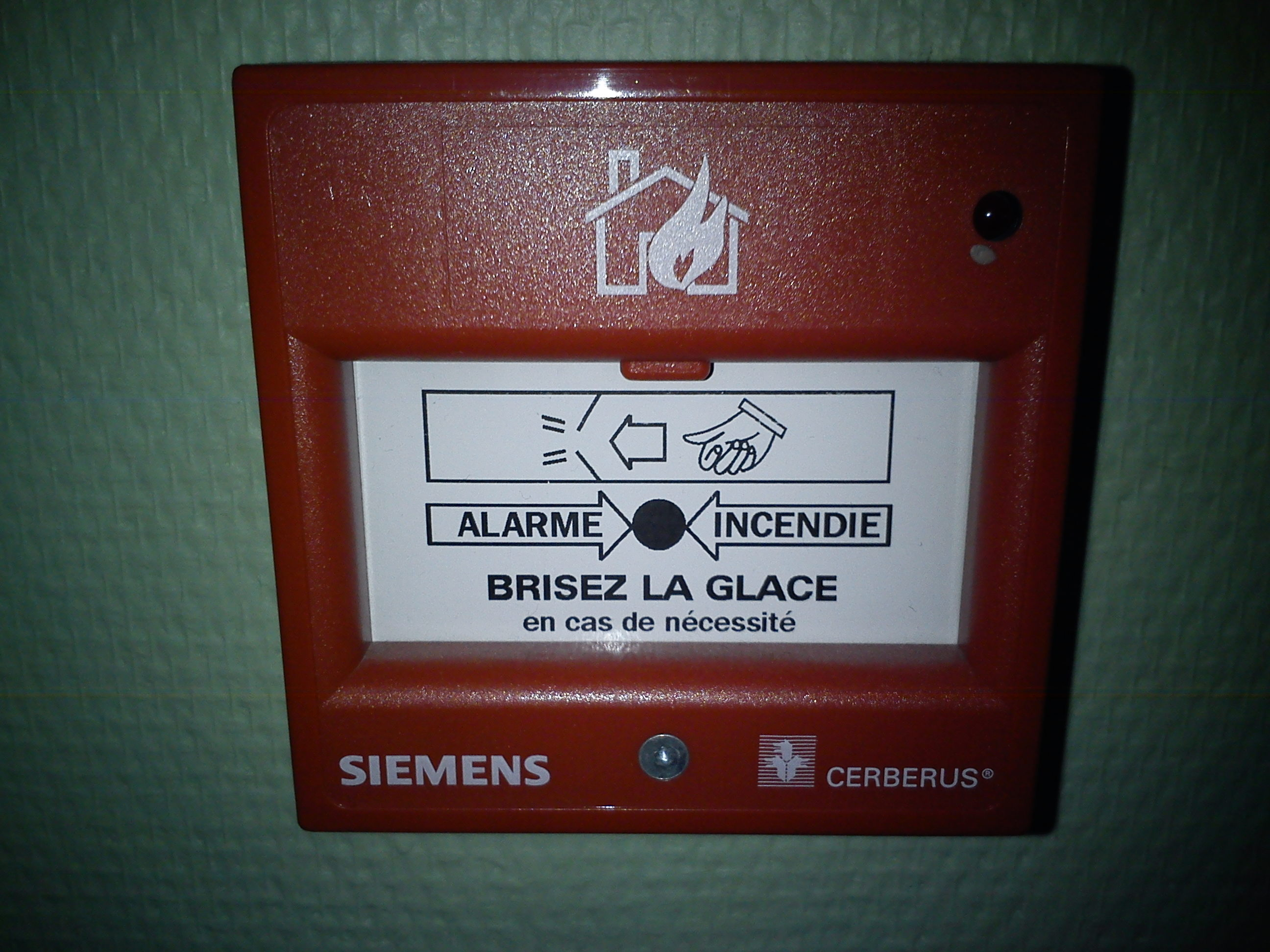 Siemens fire alarm control panel